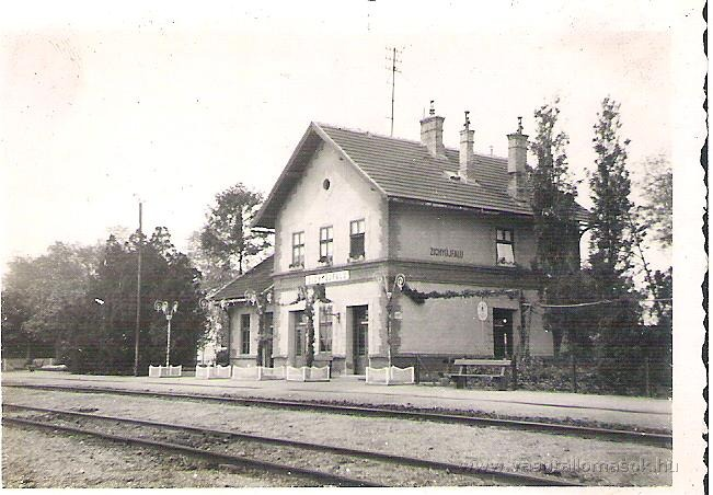 Train station of Zichyújfalu, Fejér, Hungary in 1910s